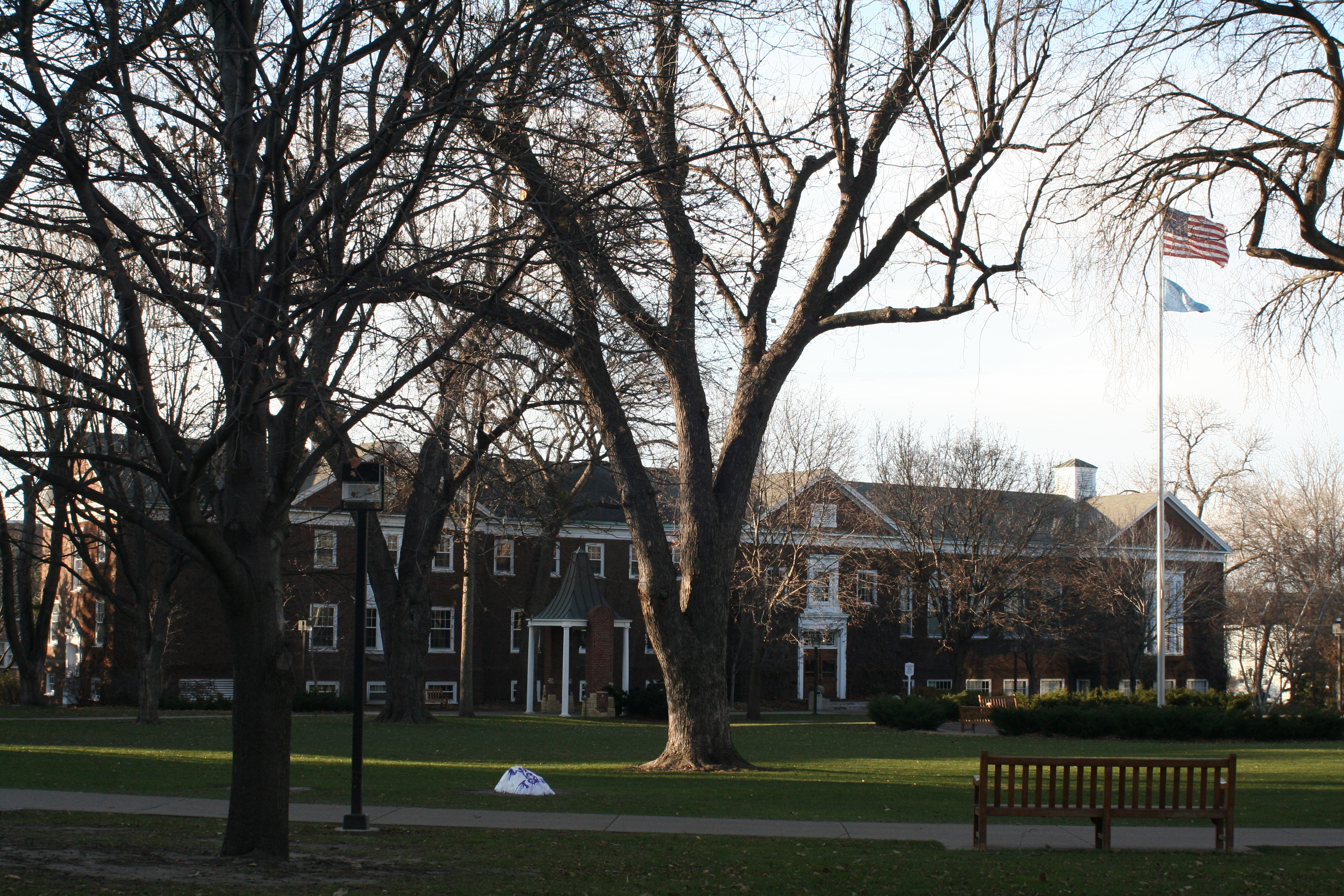 Weyerhauser Hall (college offices), Macalester College, Saint Paul, Minnesota.